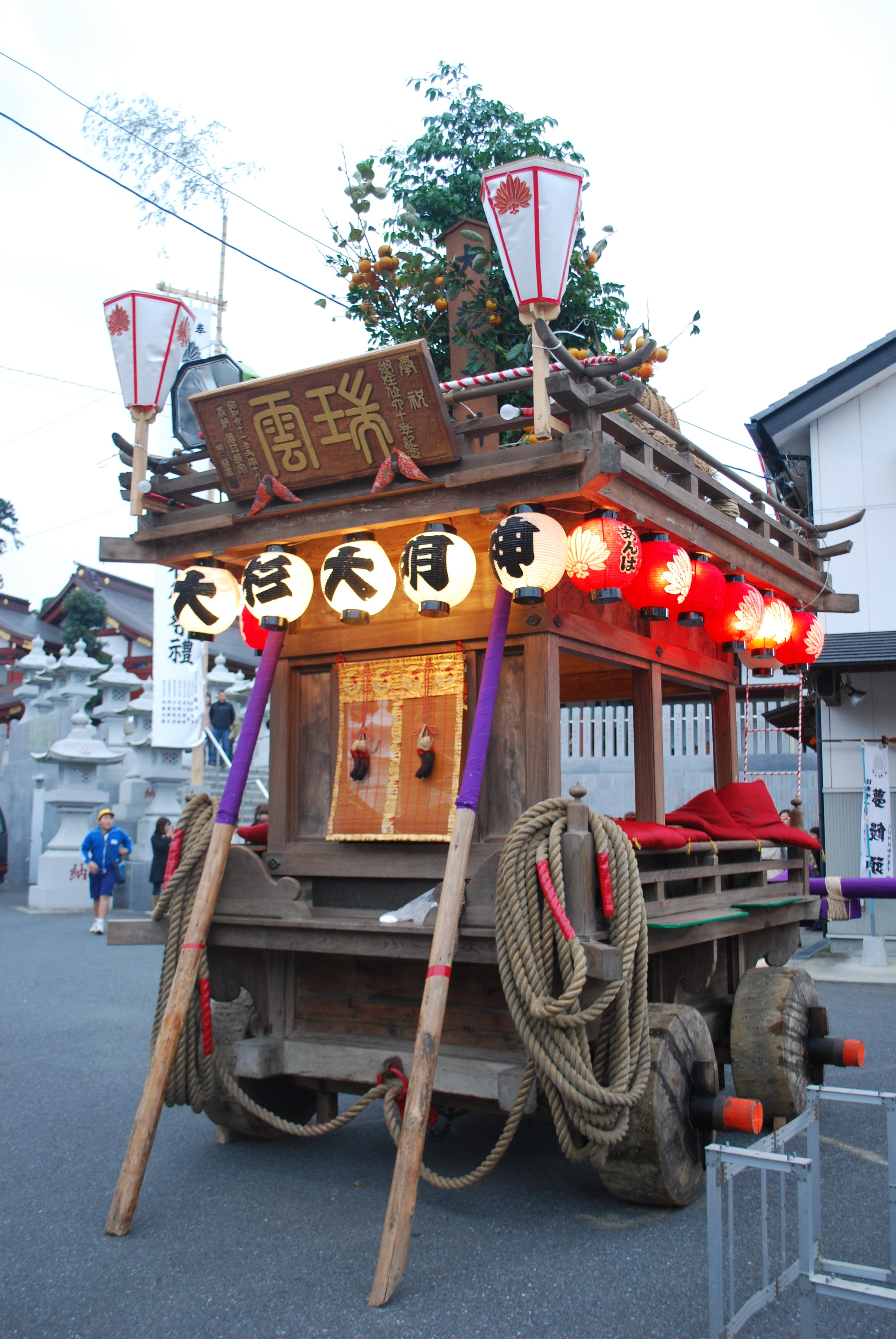 Osugi-shrine festival,Aba,Inashiki-city,Japan